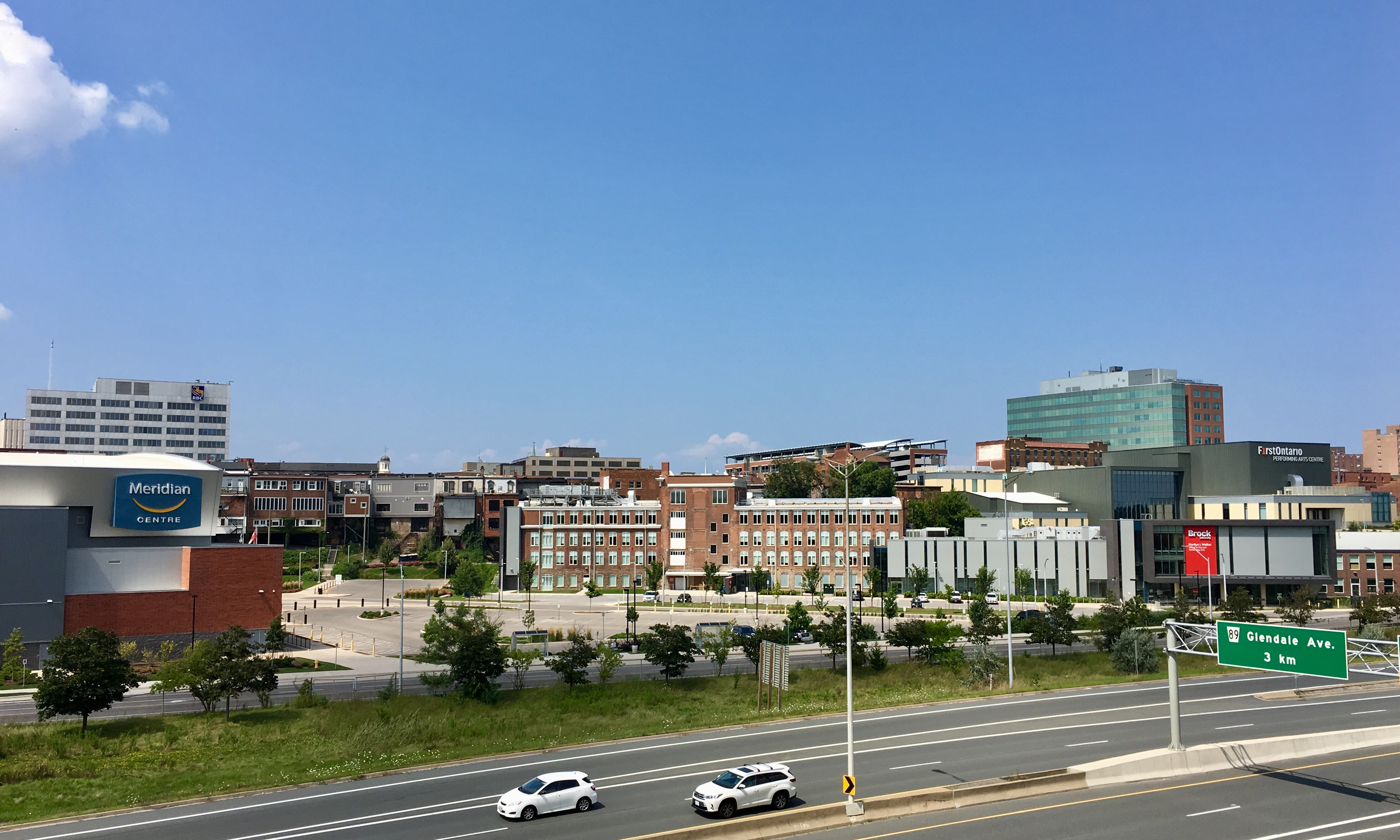 This is the skyline of Downtown St. Catharines, with Meridian Centre, Brock University's School of Fine and Performing Arts and the FirstOntario Performing Arts Centre in the foreground